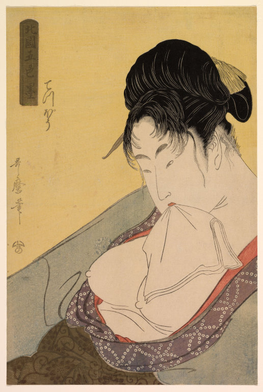 Ukiyo-e print from the series Hokkoku Goshiki-zumi